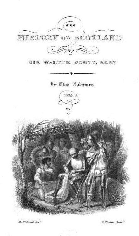 Illustration from vol. 1 of Walter Scott's History of Scotland (1830). Sir Andrew Murray mends his saddle-girth (p. 188).